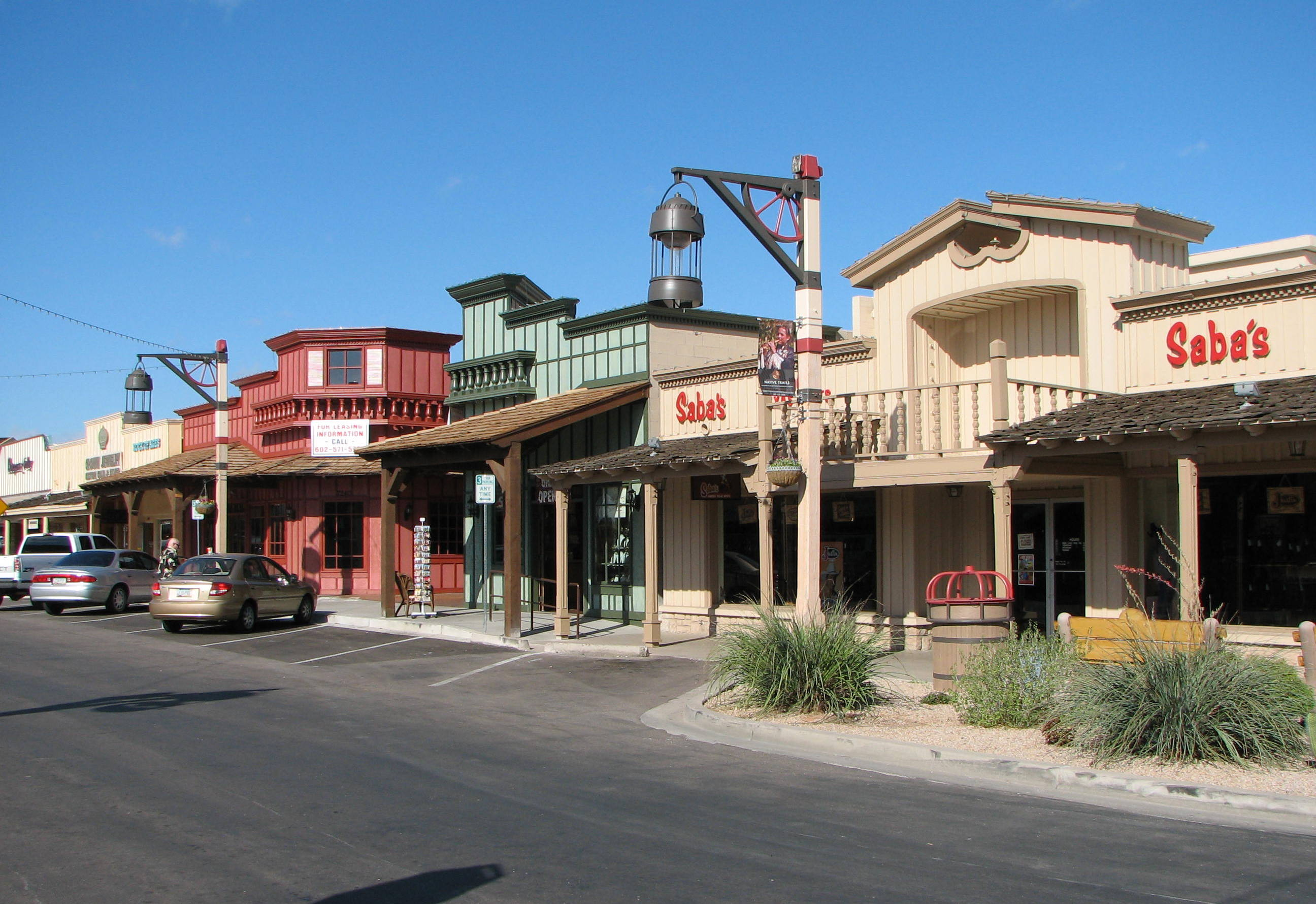 A street in Old Town Scottsdale, Arizona, USA